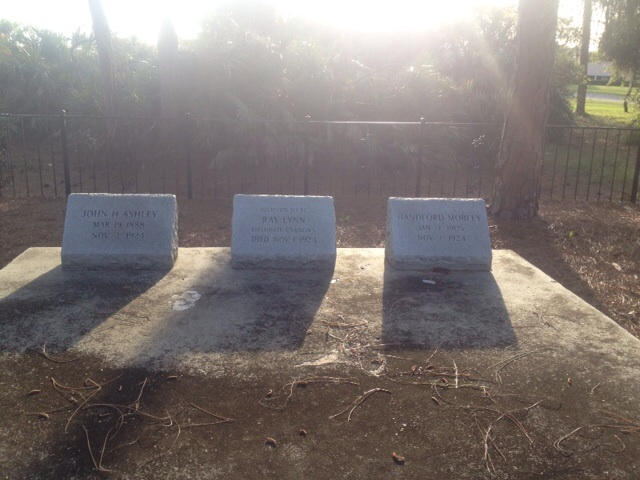 The graves of John Ashley, Ray Lynn and Handford Mobley in Stuart! Florida